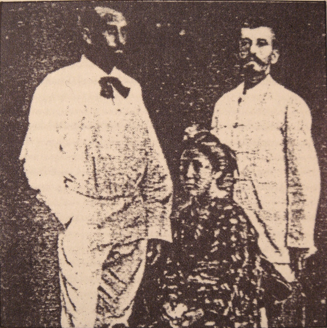 Yves, Chrysantheme, and Pierre Loti, 1885